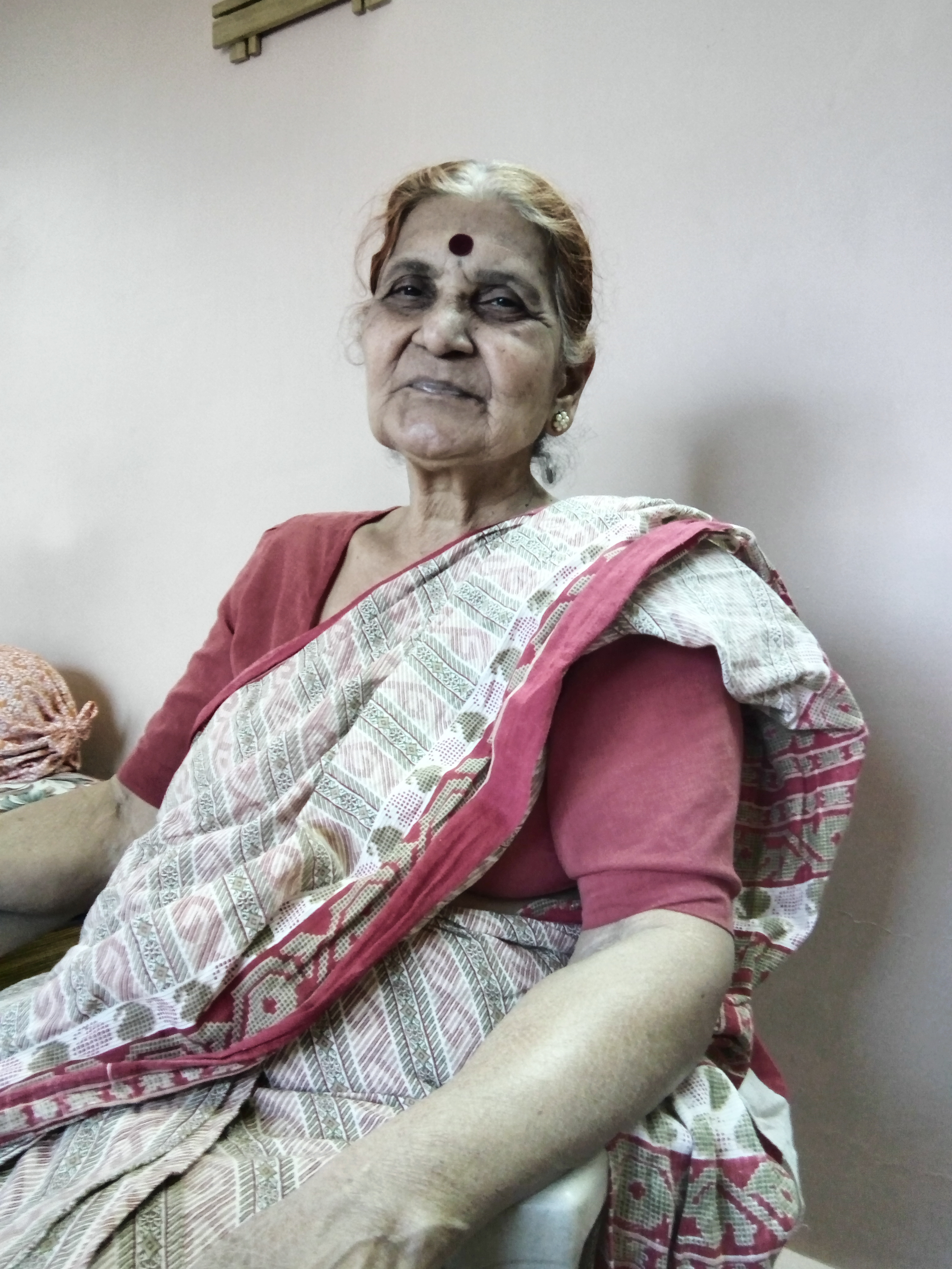 Marathi female writer Tara Bhawalkar